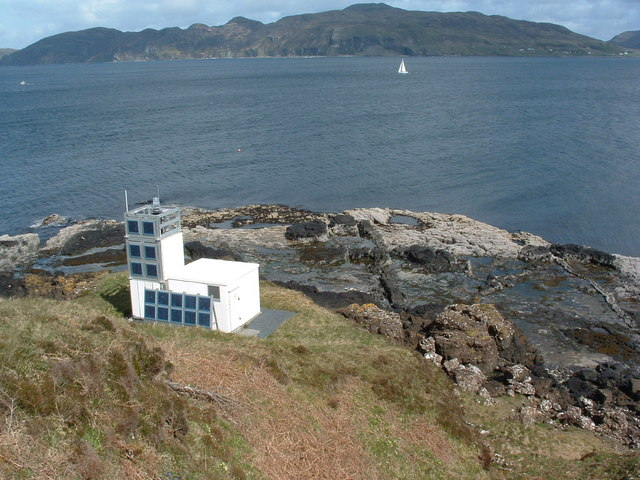 Ardmore lighthouse. At least partially powered by solar panels, which seems a bit optimistic given Mull's climate. I do admit it looks ok in this picture but about half an hour after this was taken, the heavens opened and it poured for a couple of hours.